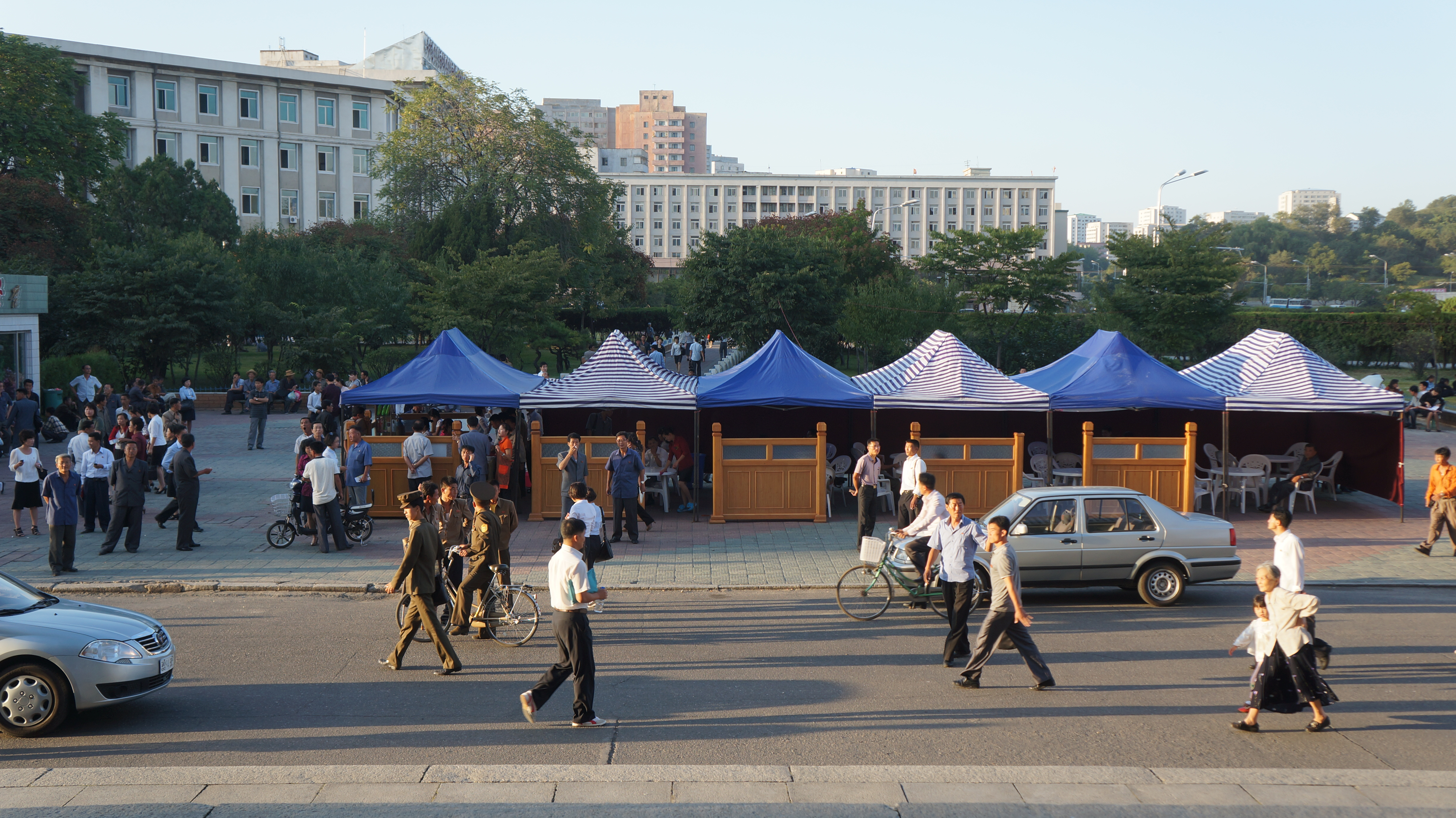 Behind the wooden walls lie a delicious selection of Korean comfort food like kimbap 김밥, skewers 꼬치, refreshing clam soup 조개탕 and of course draft beer 생맥주!